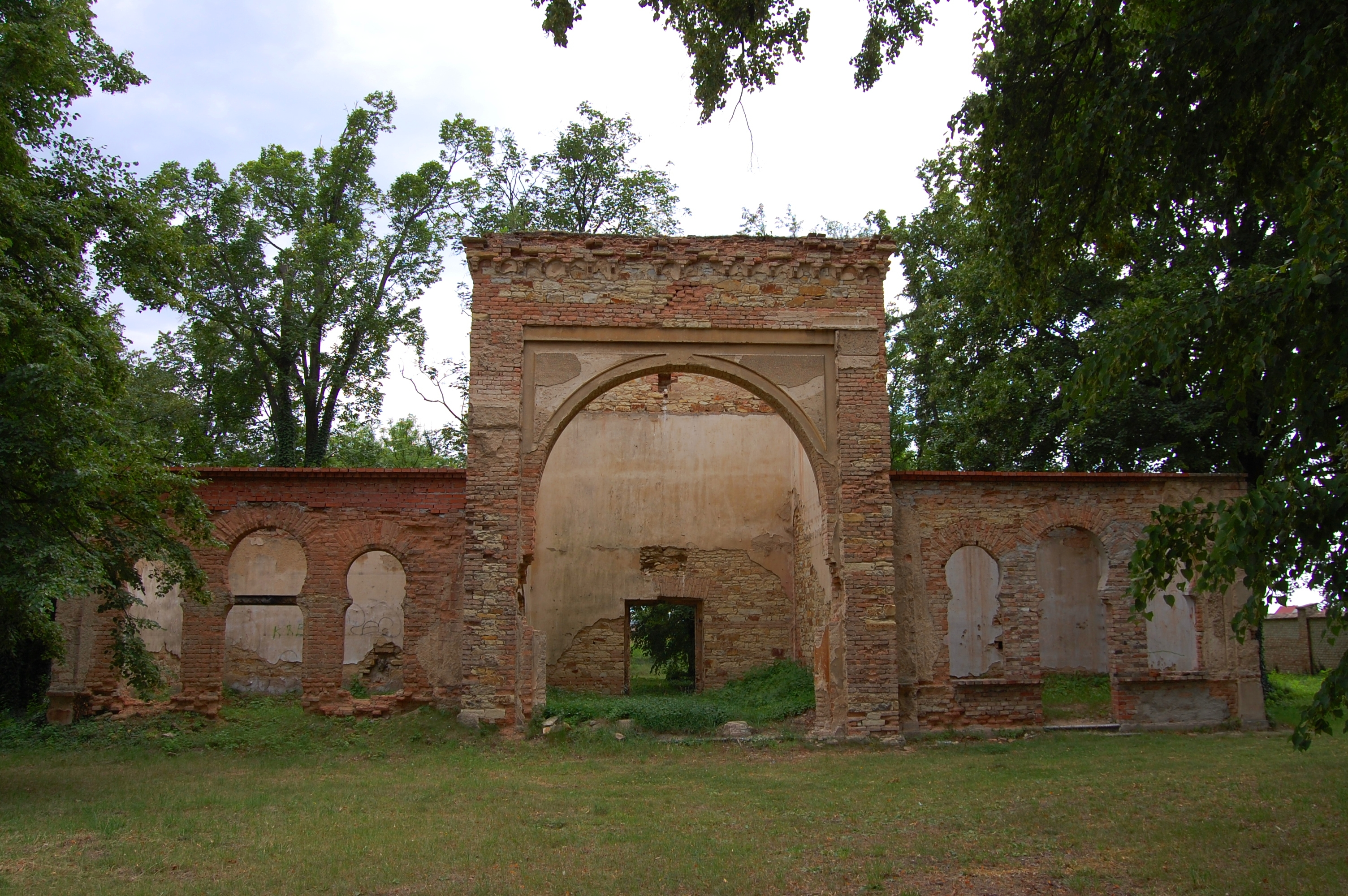 New Jewish cemetery in Roudnice nad Labem, Czech Republic